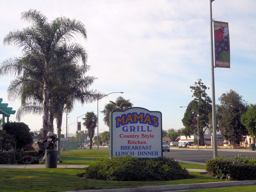 Mama's cafe sign — in Chino, California